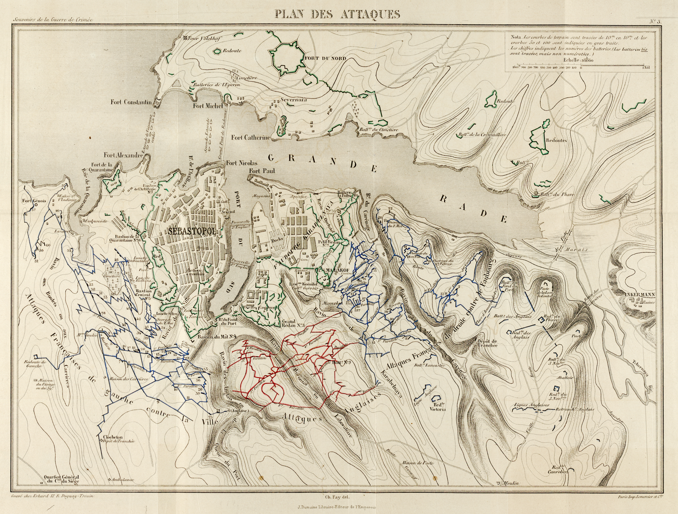 Map of the French (blue) and English (red) positions at the Siege of Sevastopol (1854–1855). Contours 10m intervals. Detail from Plan des Attaques by Capitaine Charles Alexandre Fay, French staff officer. Published 1867 by J Dumaine, Imperial Librarian, Paris.